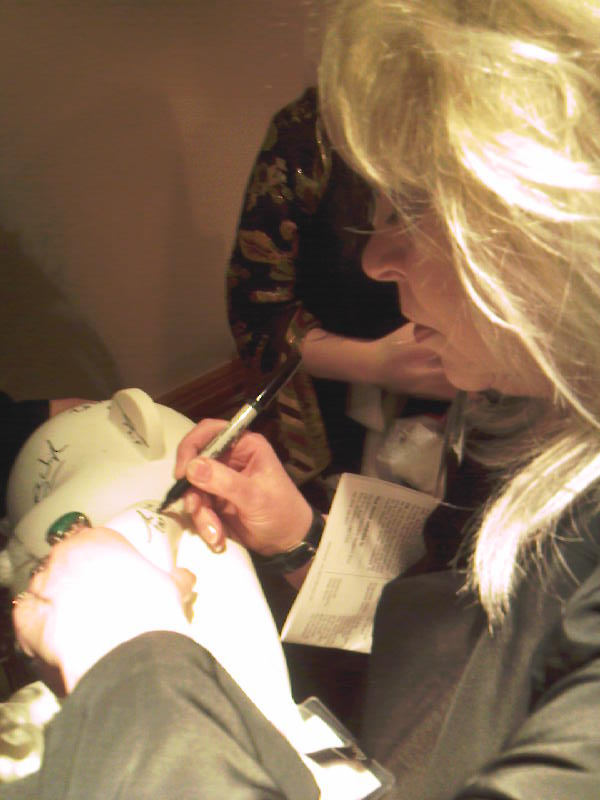 Mistress of the Genre, the prolific and long-respected Tanith Lee was caught by the MonQee at the pre-gathering before the Opening Ceremonies. The MonQee is raising money for the Alzheimer's Research Trust as part of the Match It For Pratchett campaign. Find the MonQee's story here!